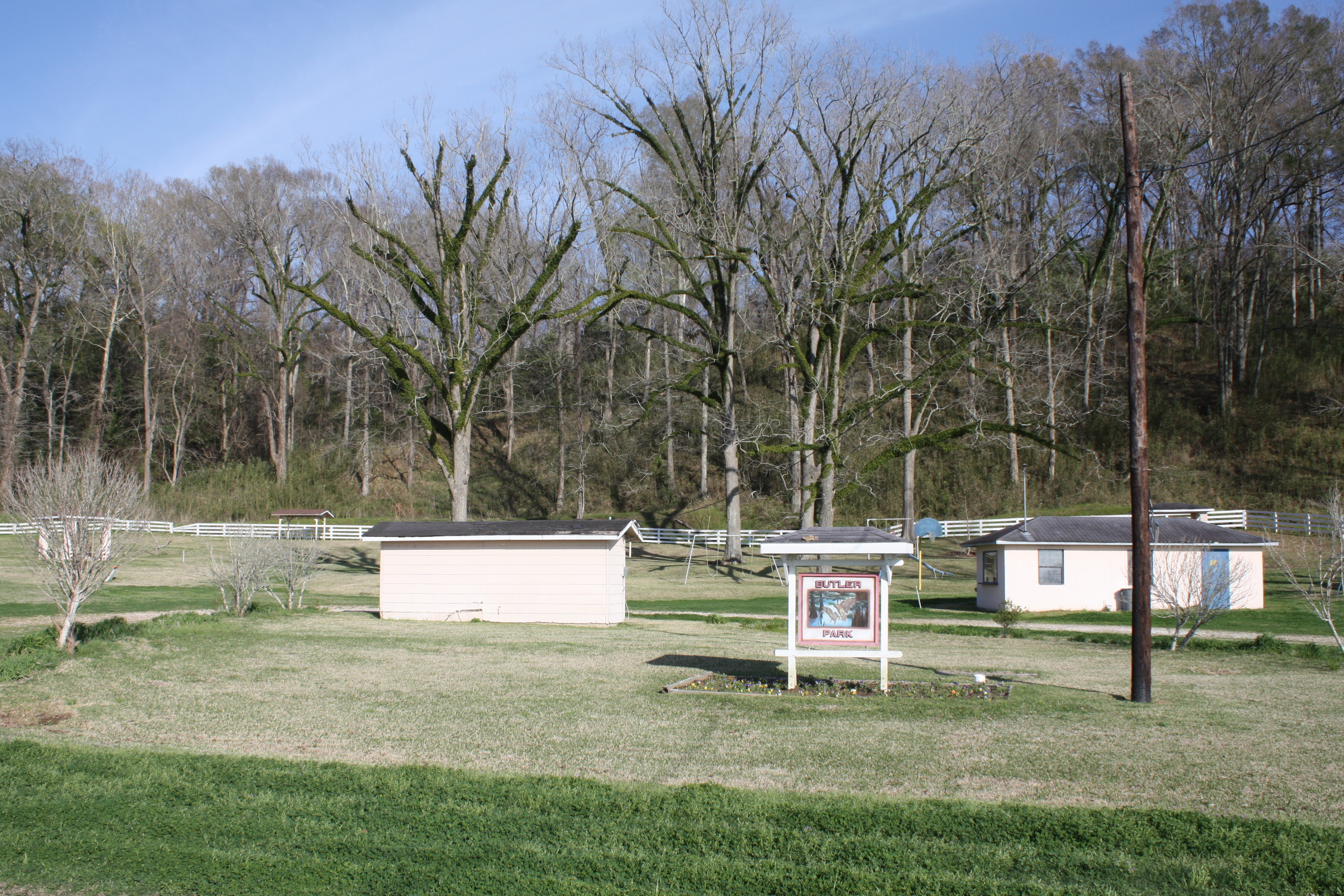 Originally this area was used for a mobile home park for the 'free' people that worked at the prison. In the 80's it was designated as a visiting area for trustee inmates to visit with their friends and family. Visiting here was discontinued around 2004-2005 and is occasionally used for picnics and the Annual Easter Egg Hunt for children of Angola officers that reside on the prison grounds.